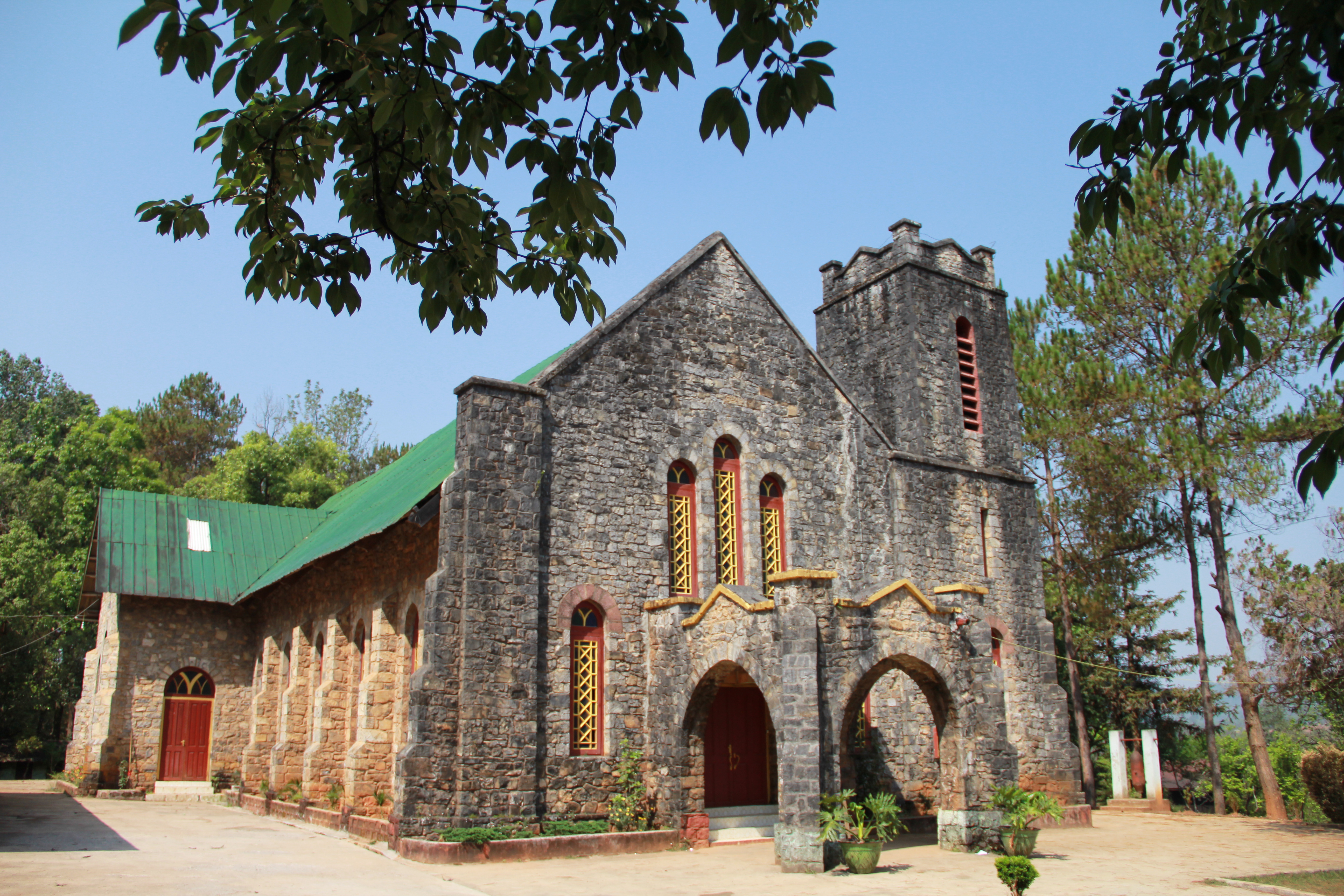 Kutkai, Shan State (Northern)